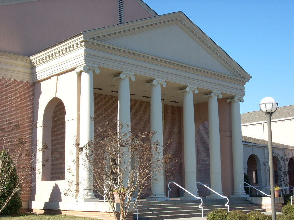 Floyd A. & Fay W. Falany Performing Arts Center, Reinhardt College, Waleska, Georgia